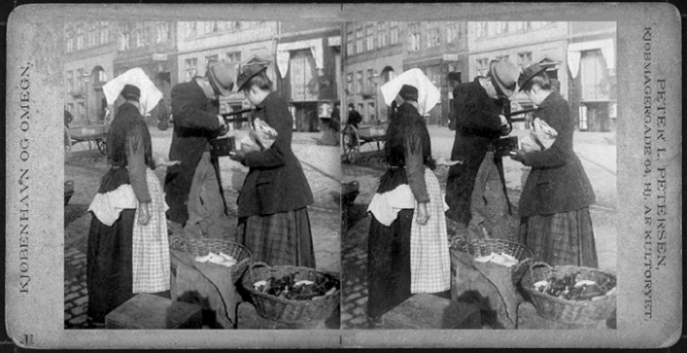 Peter Elfelt (then: Peter L. Petersen) with his wife, Emilie Anny Casparine Andersen, presumably at Gammel Strand, Copenhagen, 1892. He holds a Kodak stereoscopic camera in his hands.